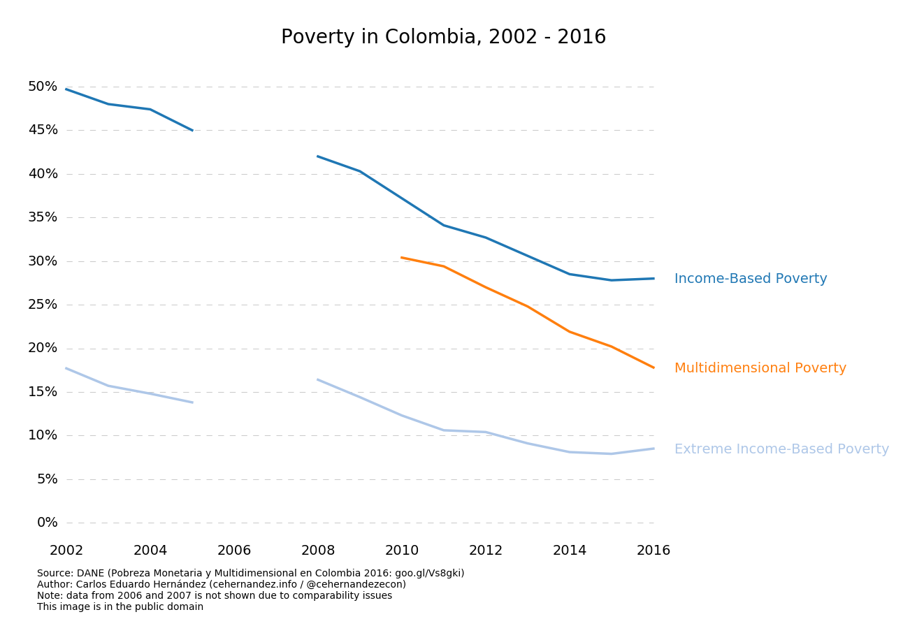 Colombian poverty rates, 2002-2016. Income-Based Poverty, Extreme Income-Based Poverty, and Multidimensional Poverty Source: DANE (goo.gl/Vs8gki)